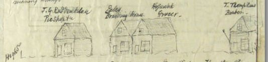 Original houses between High and Colombo Streets in Christchurch (early 1860s)